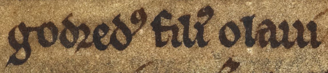 An excerpt from folio 36r of Cotton MS Julius A VII (the Chronicle of Mann). The excerpt reads in Latin "Godredus filius Olavi". The excerpt concerns Guðrøðr Óláfsson, King of the Isles (died 1187).